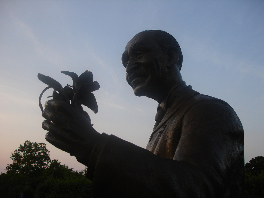 A monument in Busch Gardens, St. Louis, MO erected in honor of George Washington Carver